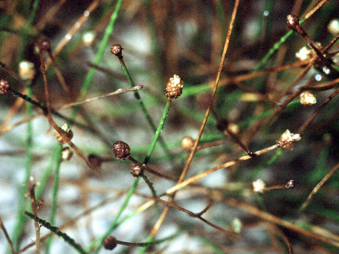 Eleocharis parvula from Robert H. Mohlenbrock. USDA SCS. 1991. Southern wetland flora: Field office guide to plant species. South National Technical Center, Fort Worth. Courtesy of USDA NRCS Wetland Science Institute.